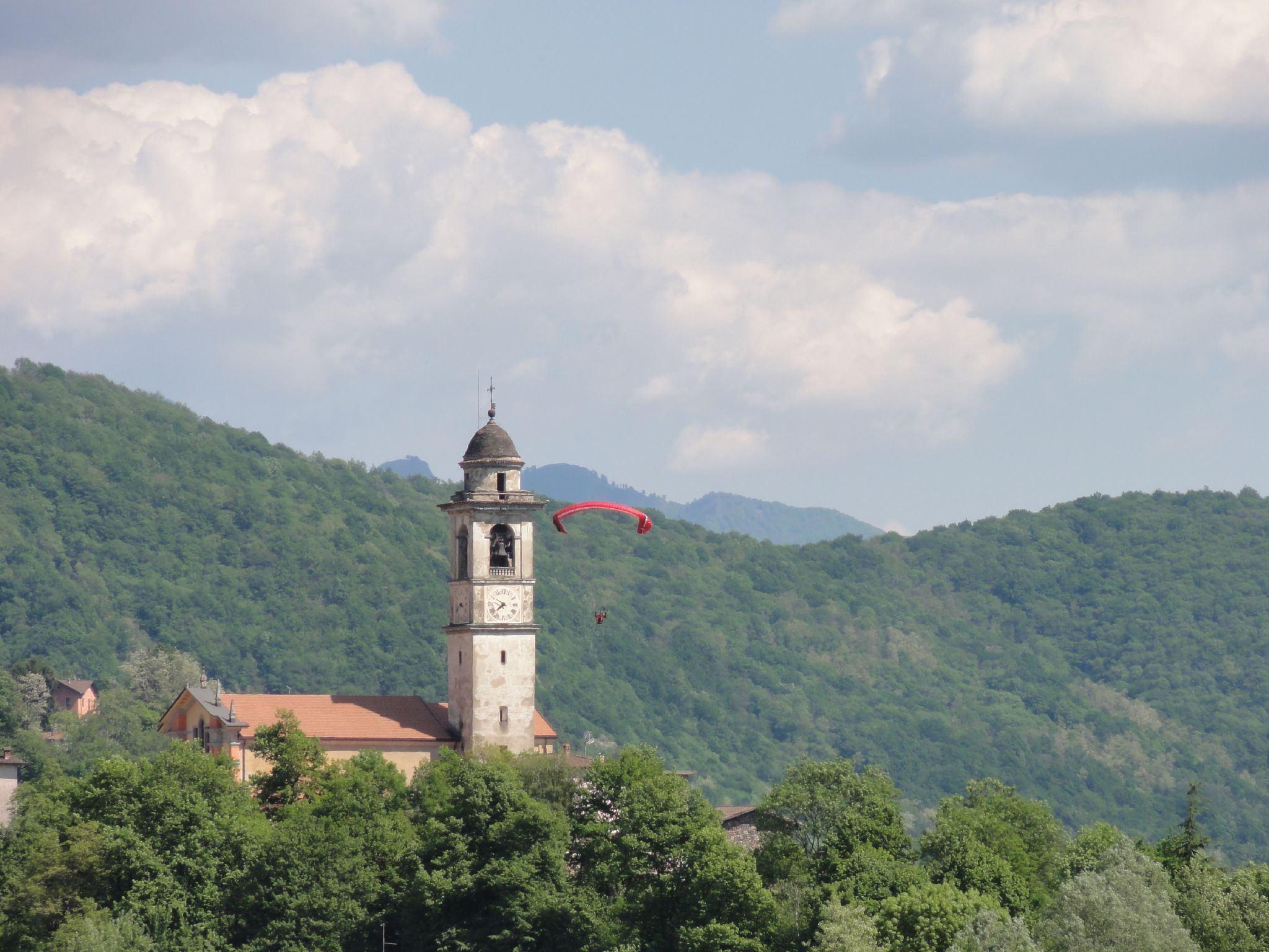 Village church of Sessa, Ticino, Switzerland